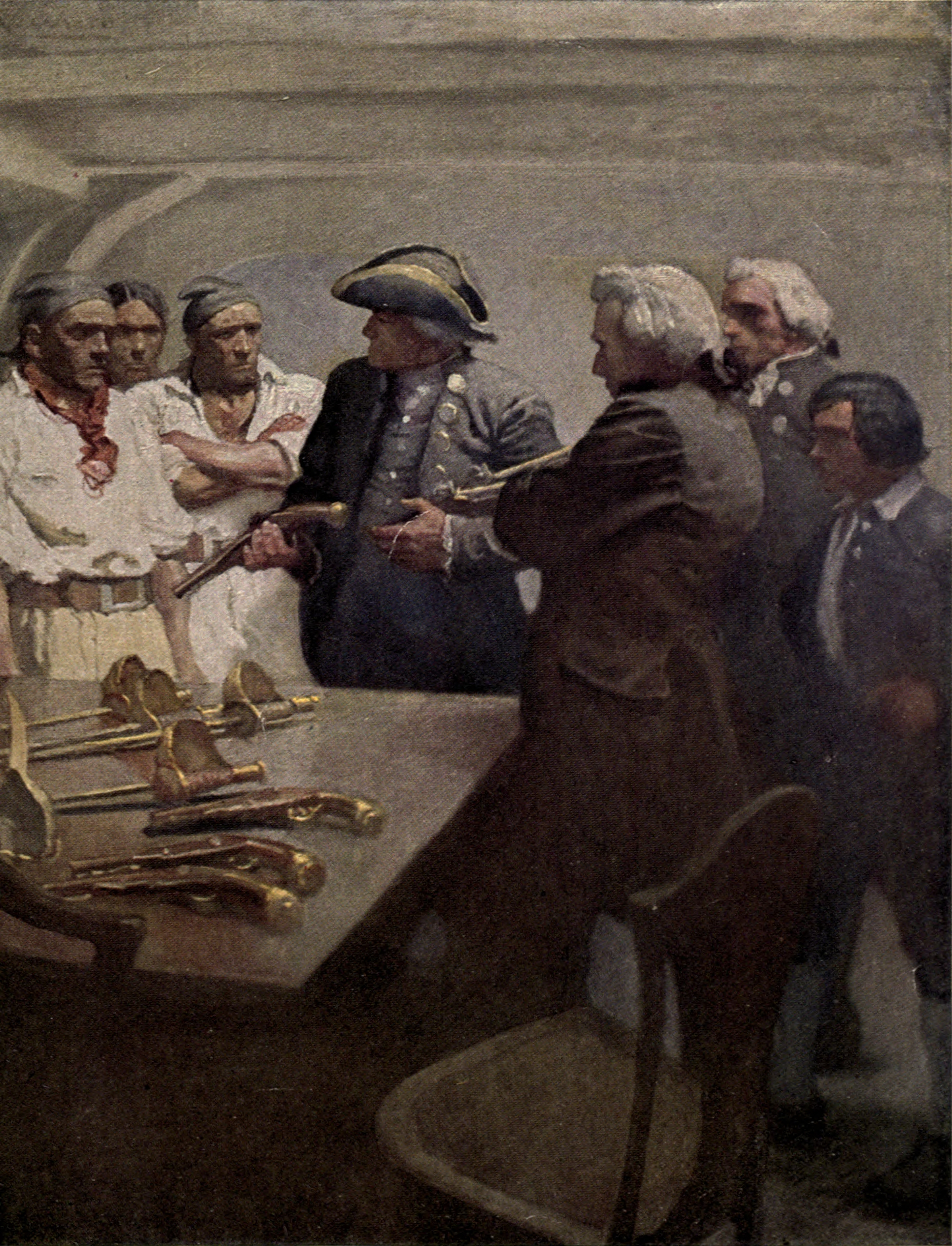 Preparing for Mutiny by N. C. Wyeth from 1911 edition of Treasure Island